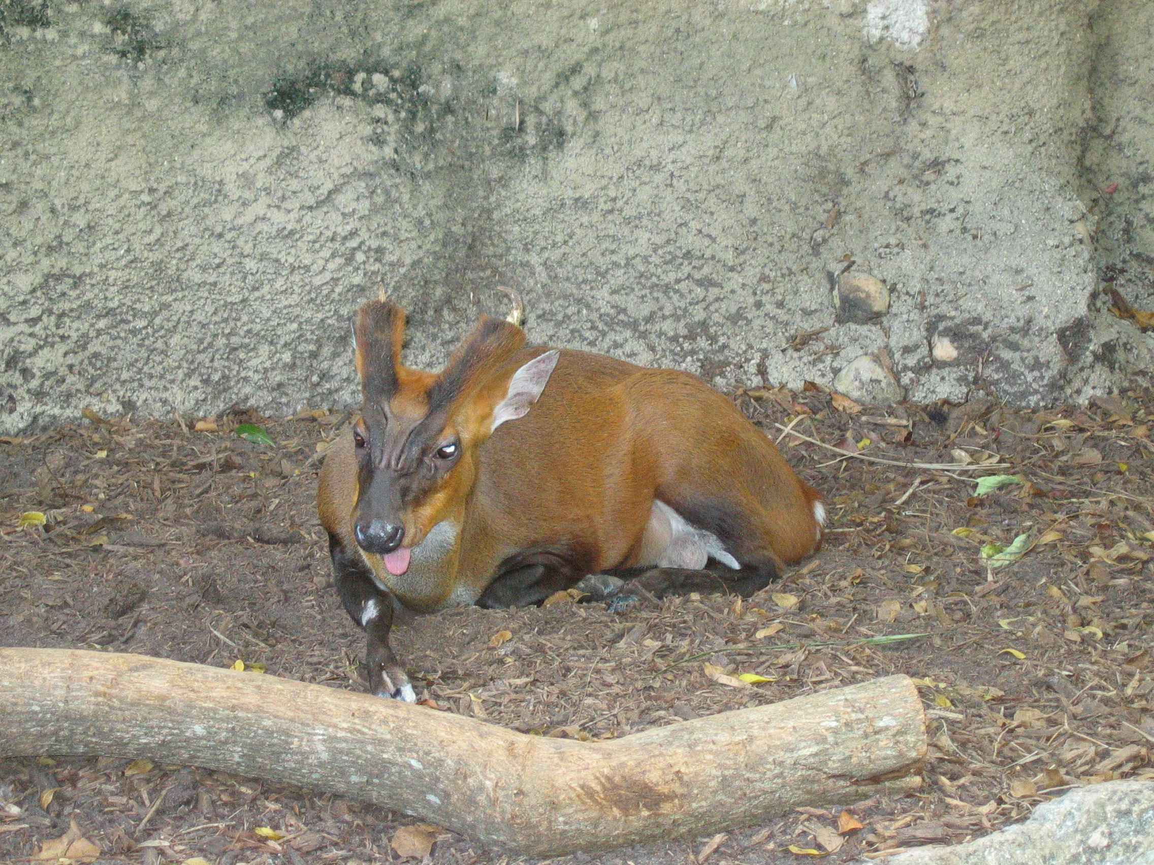 Indian Muntjac at Miami Metrozoo.IMG_6415